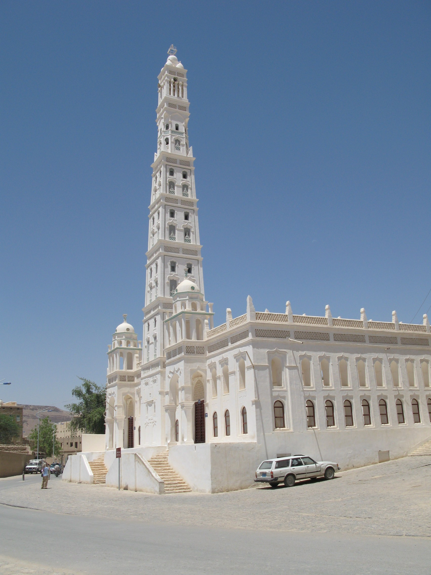 Tarim, Yemen - mosque Al-Mihdhar